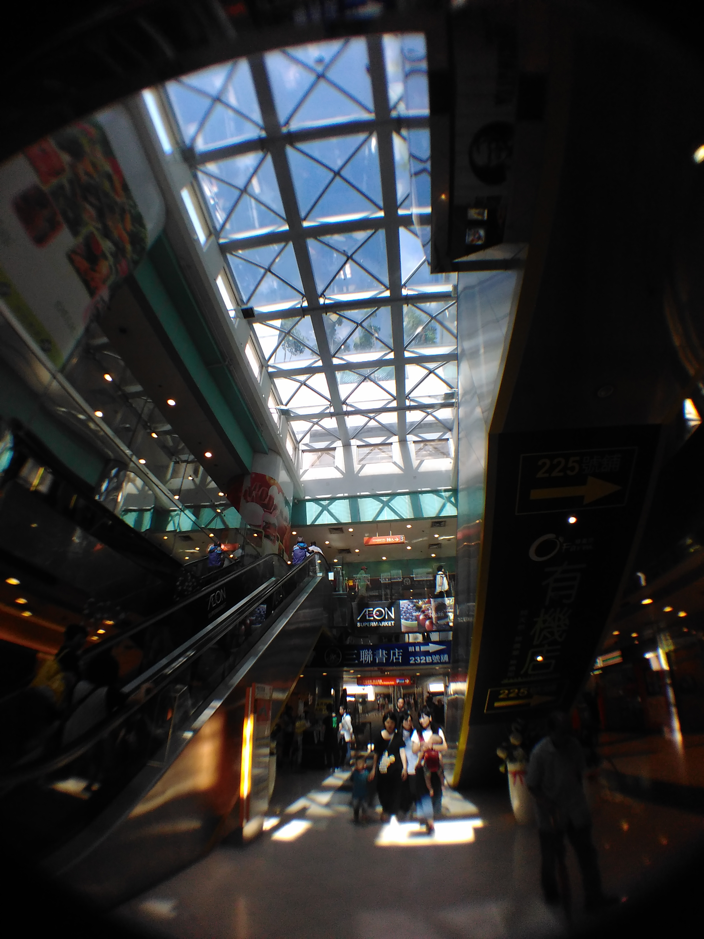 Kai Tin Shopping Centre New wing Atrium